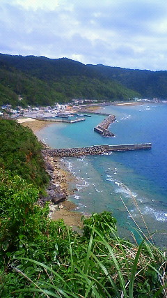 Kayauchi-banta Cliff, Kunigami, Okinawa, Japan.